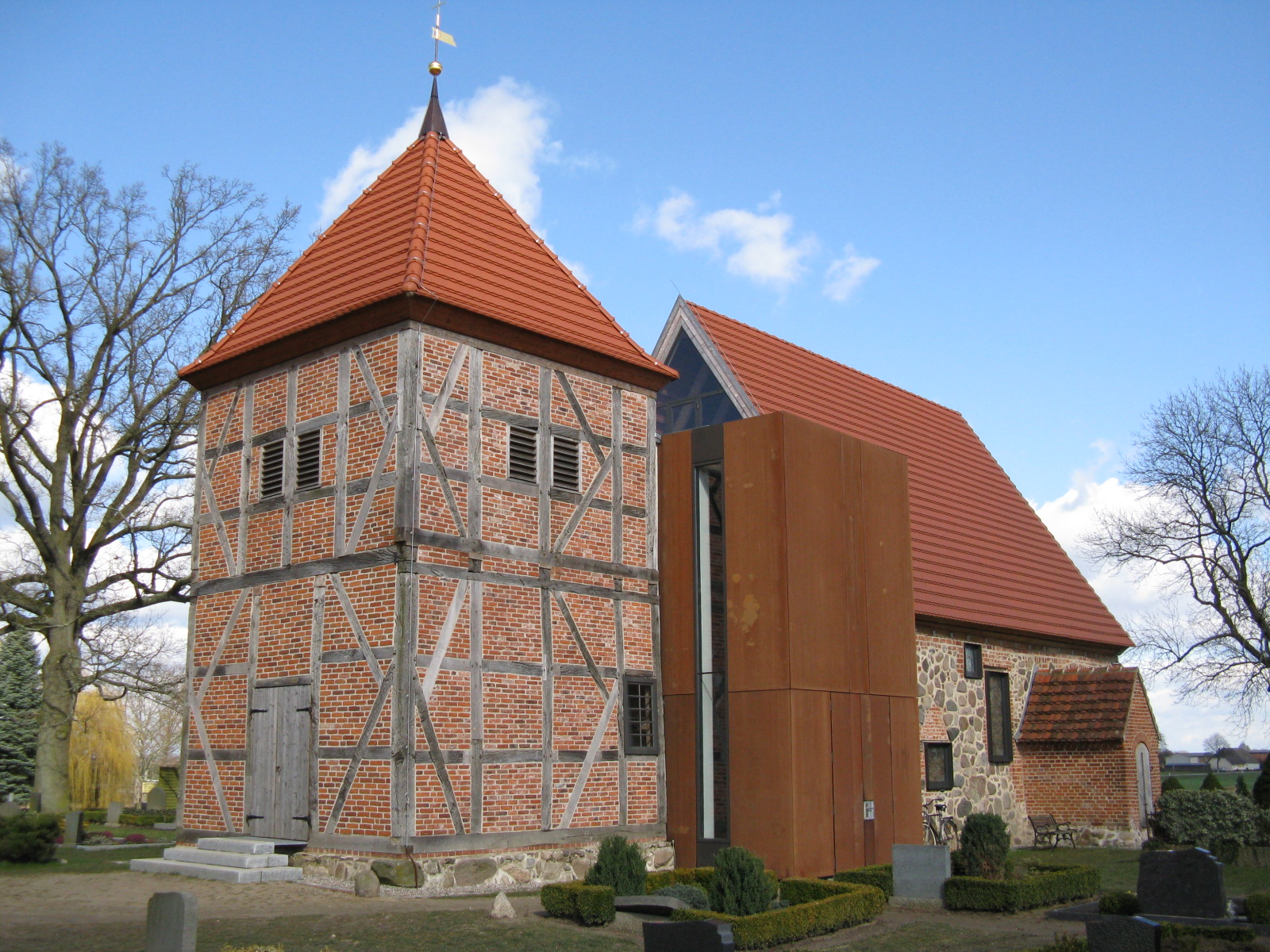 Church in Barkow, Mecklenburg-Vorpommern, Germany